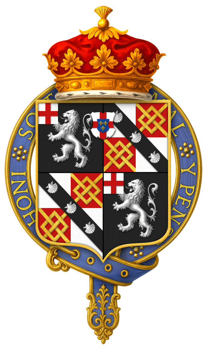 Garter encircled arms of John Winston Spencer-Churchill, 7th Duke of Marlborough, KG, as displayed on his Order of the Garter stall plate in St. George's Chapel.